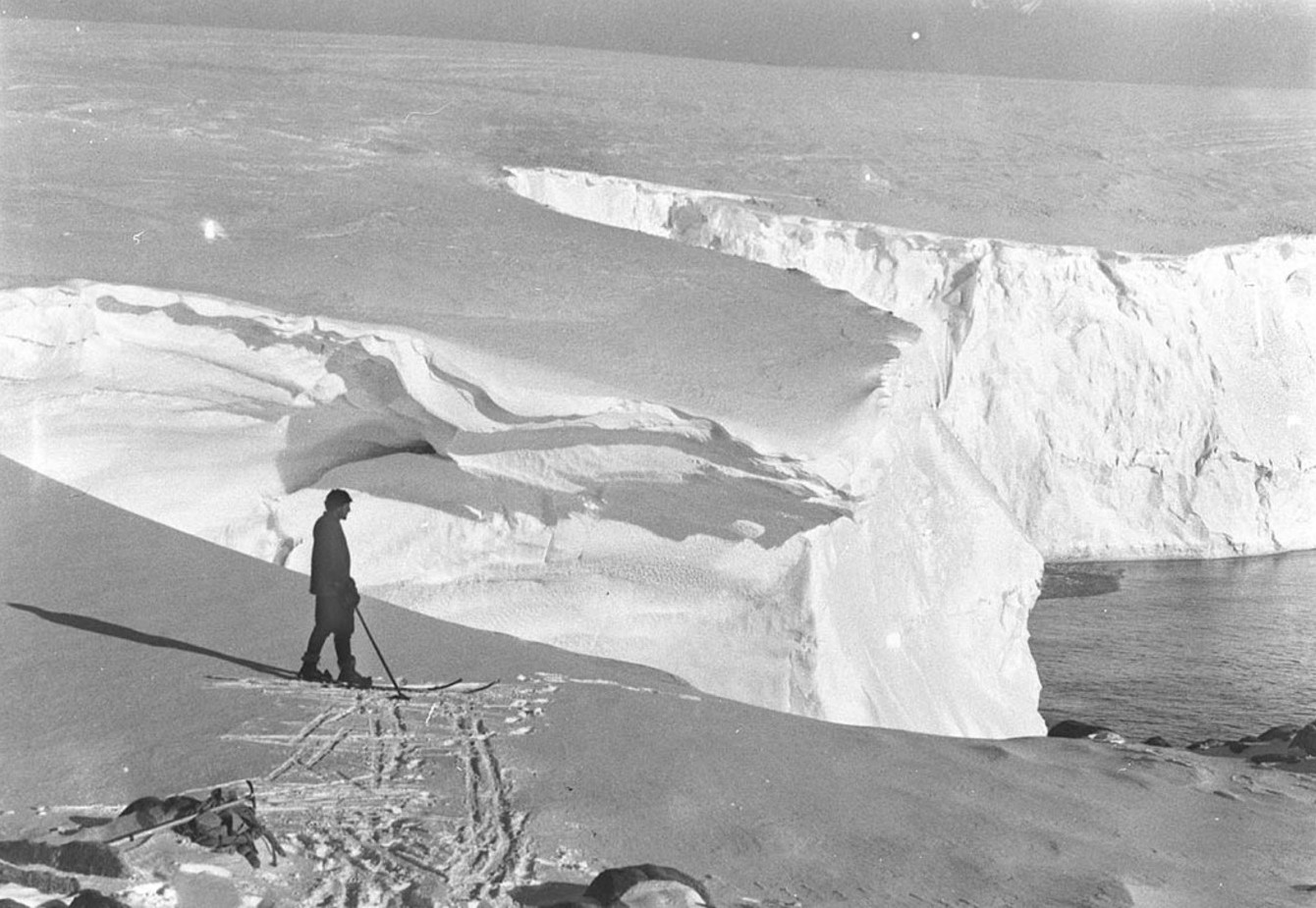 Xavier Mertz, in charge of the Greenland Dogs at the Main Base during the Australasian Antarctic Expedition, on the ice cliff near the expedition's main base at Cape Denison.